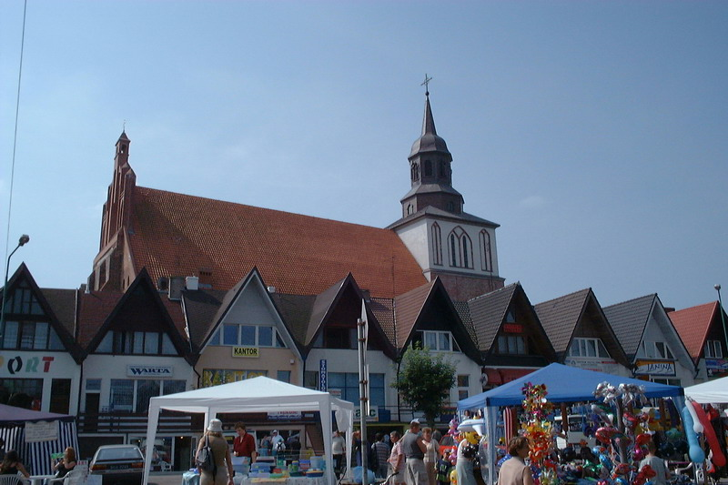 Poland, Wolin - St. Nicholas church (exterior)